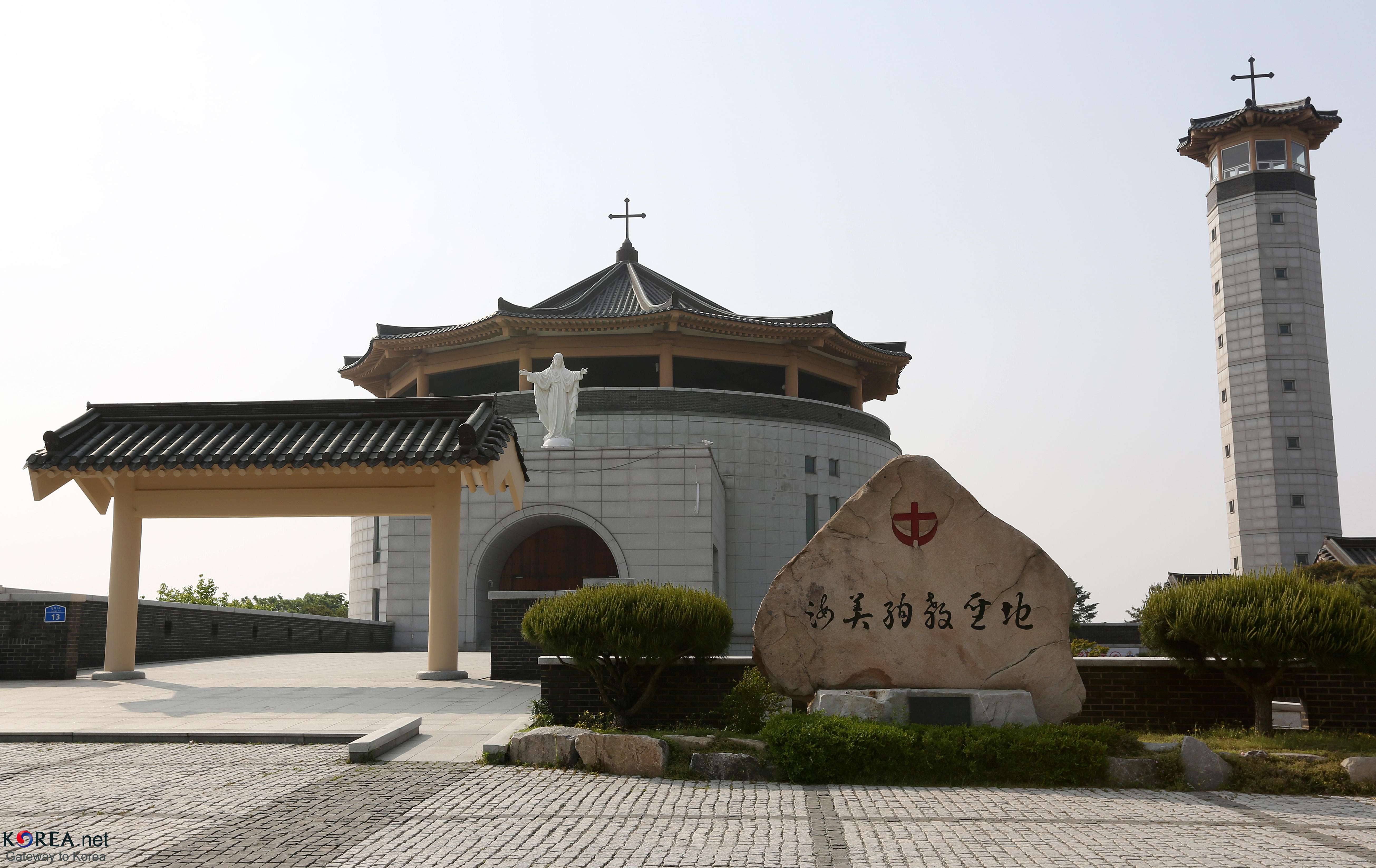 Haemi Martyrdom Holy Ground May 13, 2014 Eumnae-ri, Haemi-Myeon, Seosan-si, Chungcheongnam-do Ministry of Culture, Sports and Tourism Korean Culture and Information Service ( Official Photographer: Jeon Han 해미성지 2014-05-13 충청남도 서산시 해미면 읍내리 문화체육관광부 해외문화홍보원 코리아넷 전한